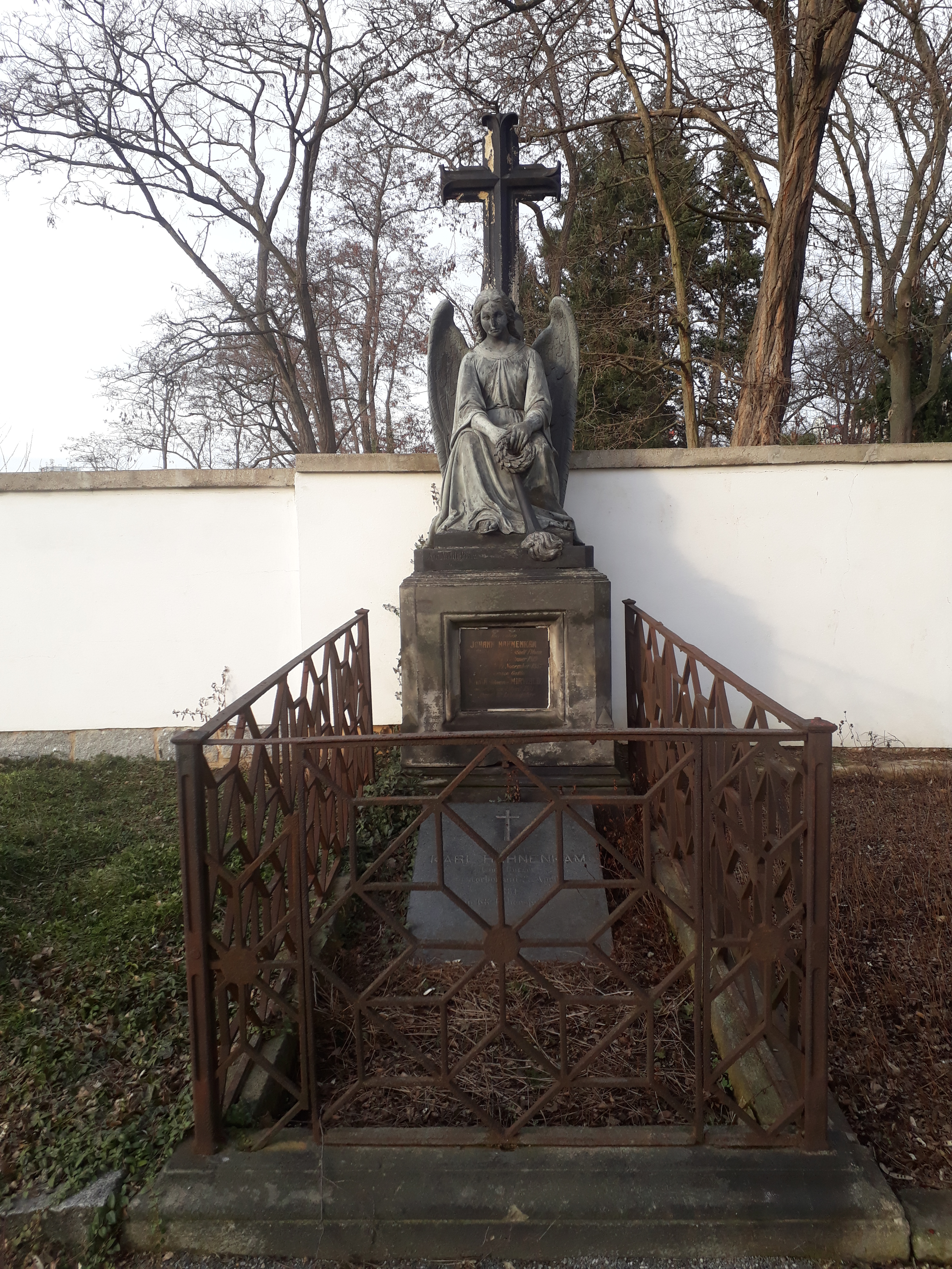 Grave of Hankekamm family, Mikulášský Cemetery, Plzeň.